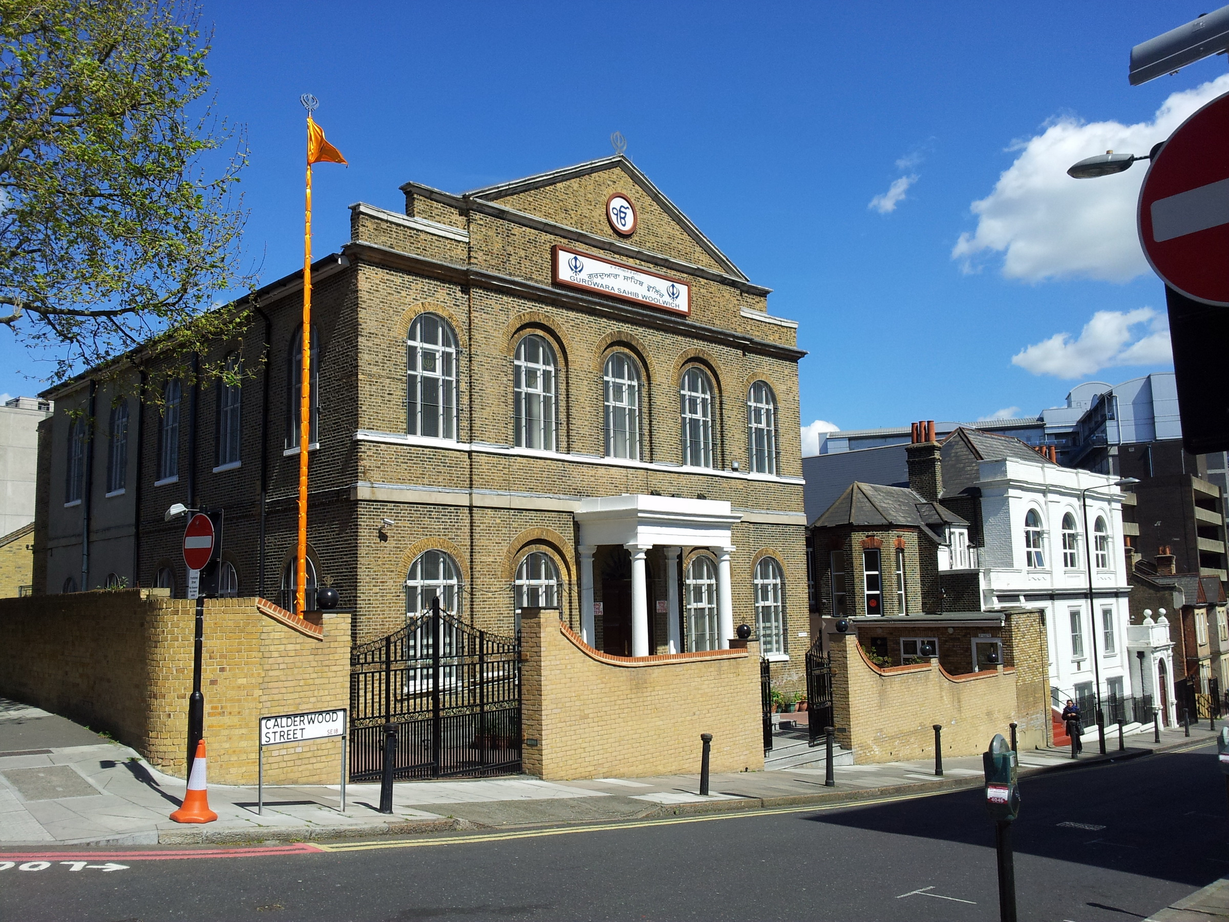 View of a Sikh Gurdwara in Calderwood Street near the centre of Woolwich, South East London.